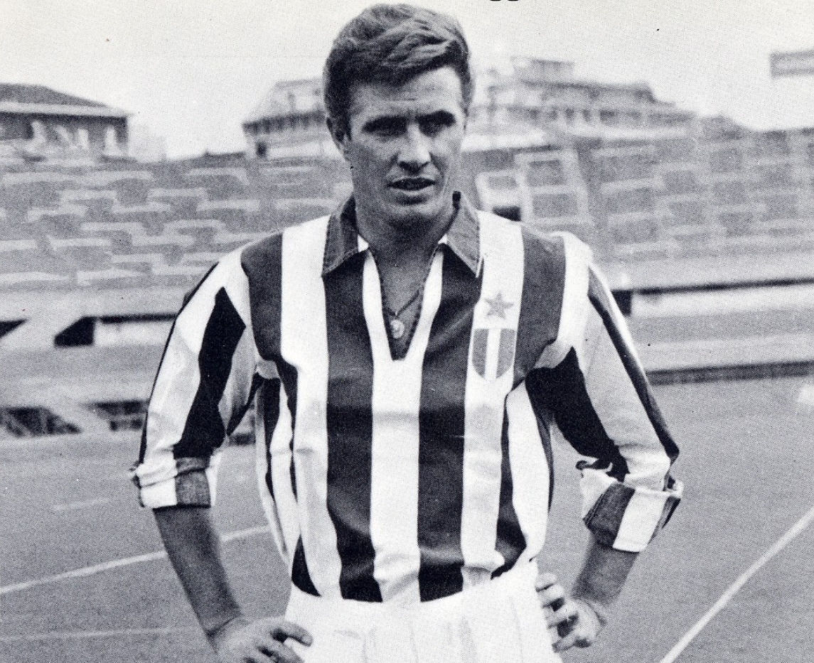 Italian footballer Benito Sarti with Juventus F.C. in the 1967–68 season, posing inside the Communal Stadium in Turin, Italy.